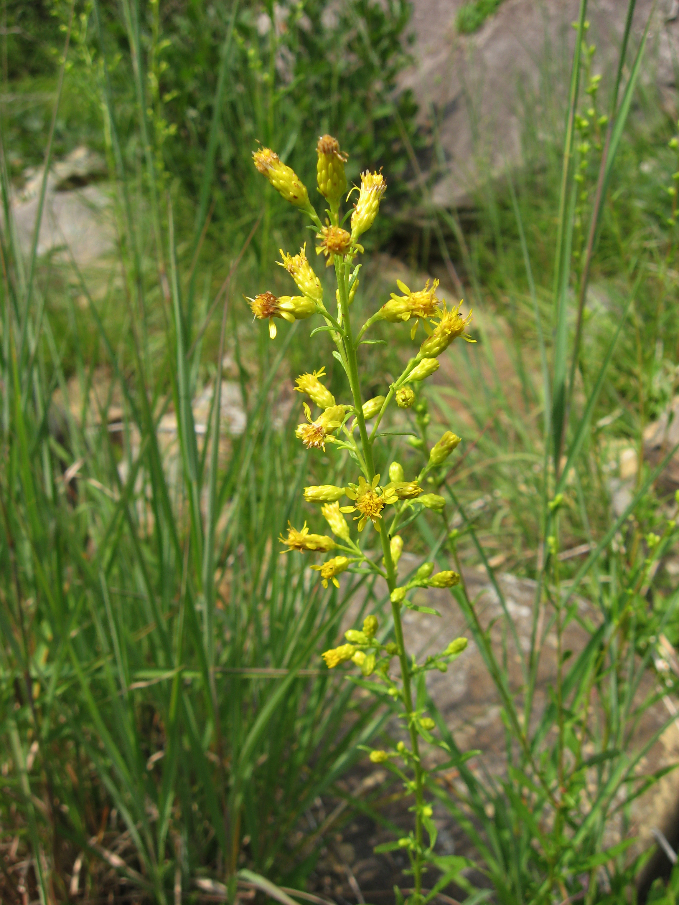 Solidago arenicola, in a rivercour bar on the Big South Fork of the Cumberland River, Scott County, Tennessee.